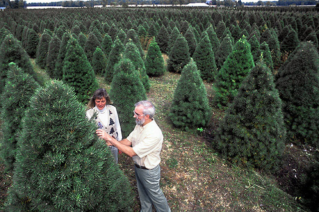 Laurie Koelling, executive director of the Michigan Christmas Tree Association, and entomologist Robert Haack check Scots pine for pine shoot beetles at a Christmas tree farm near East Lansing.